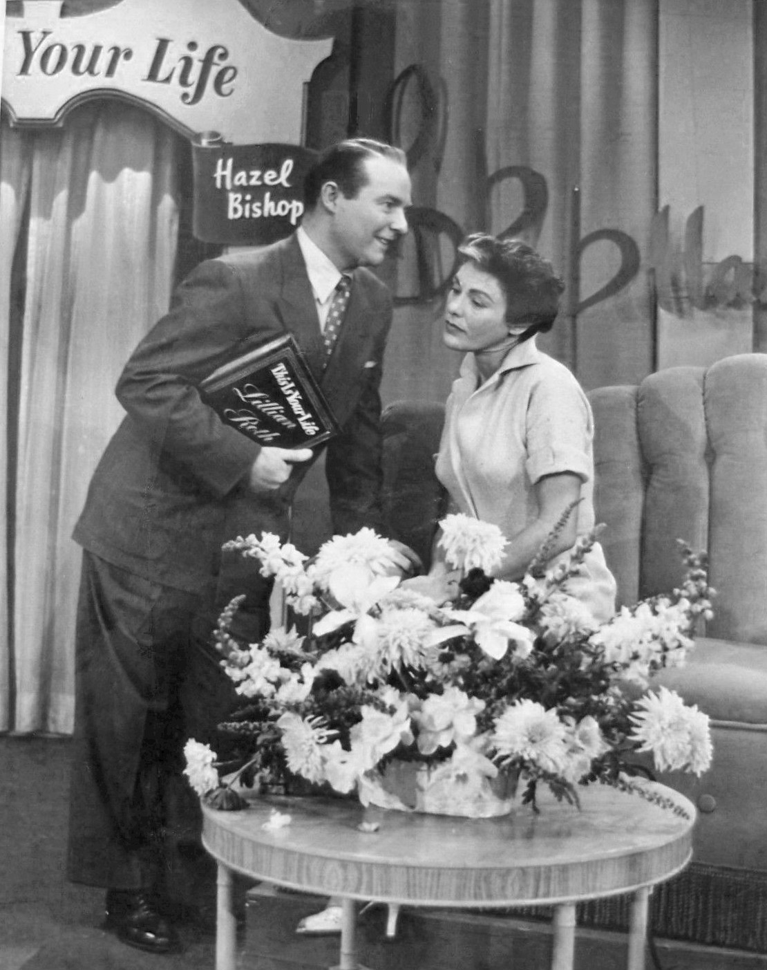 Photo of Lillian Roth and Ralph Edwards from the television program This Is Your Life.